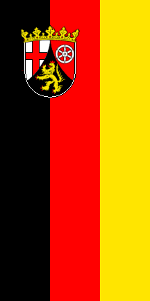 Flag of Rhineland-Palatinate, Germany